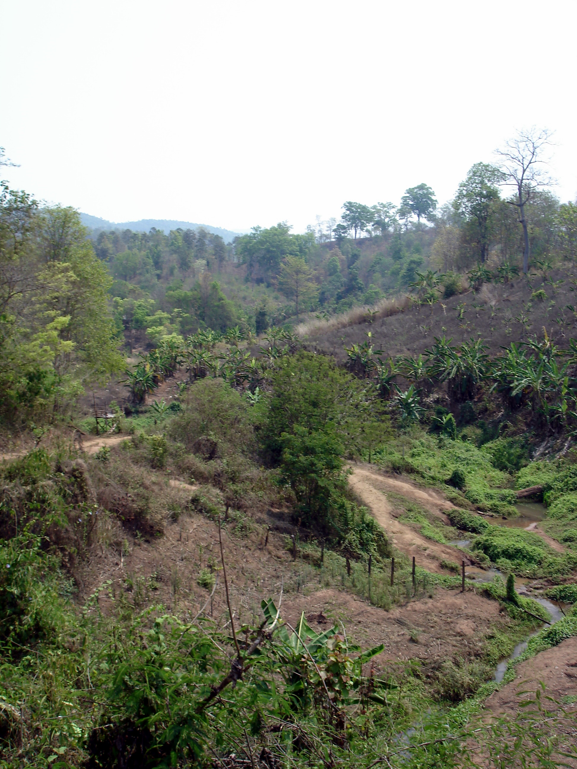 Elephant ride, Chiang Mai, Thailand, Mae Taeng District, Chiang Mai province, northern Thailand